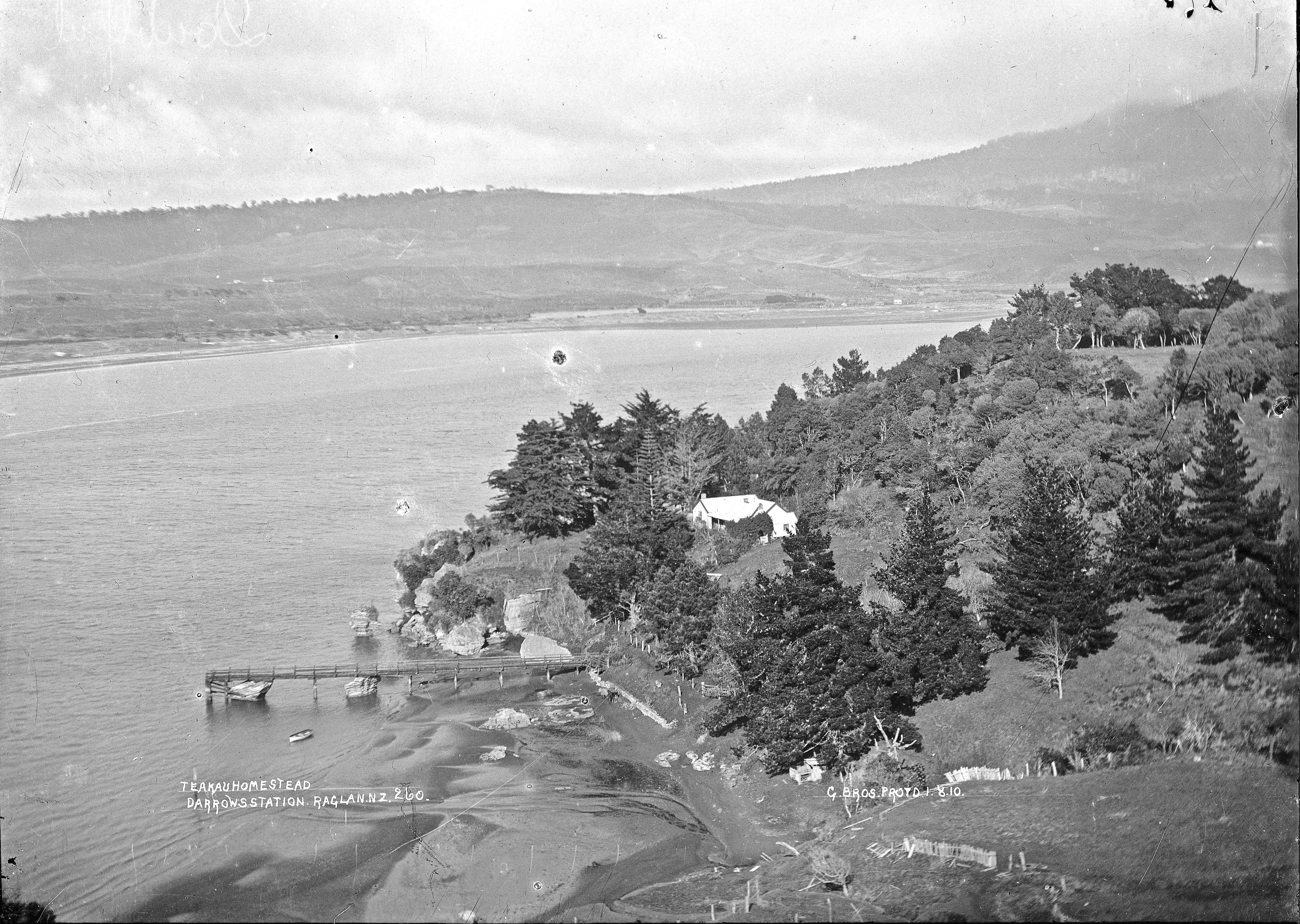 1910 Te Akau Homestead on Darrows Station, Te Akau